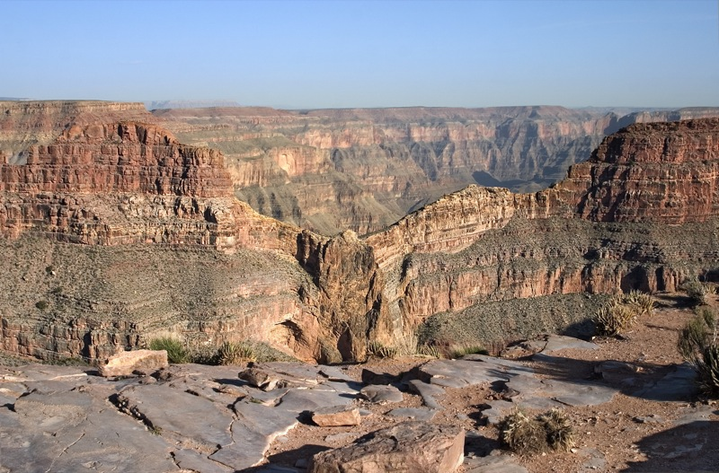 Eagle Rock as seen from the Eagle Point on the west rim of the Grand Canyon